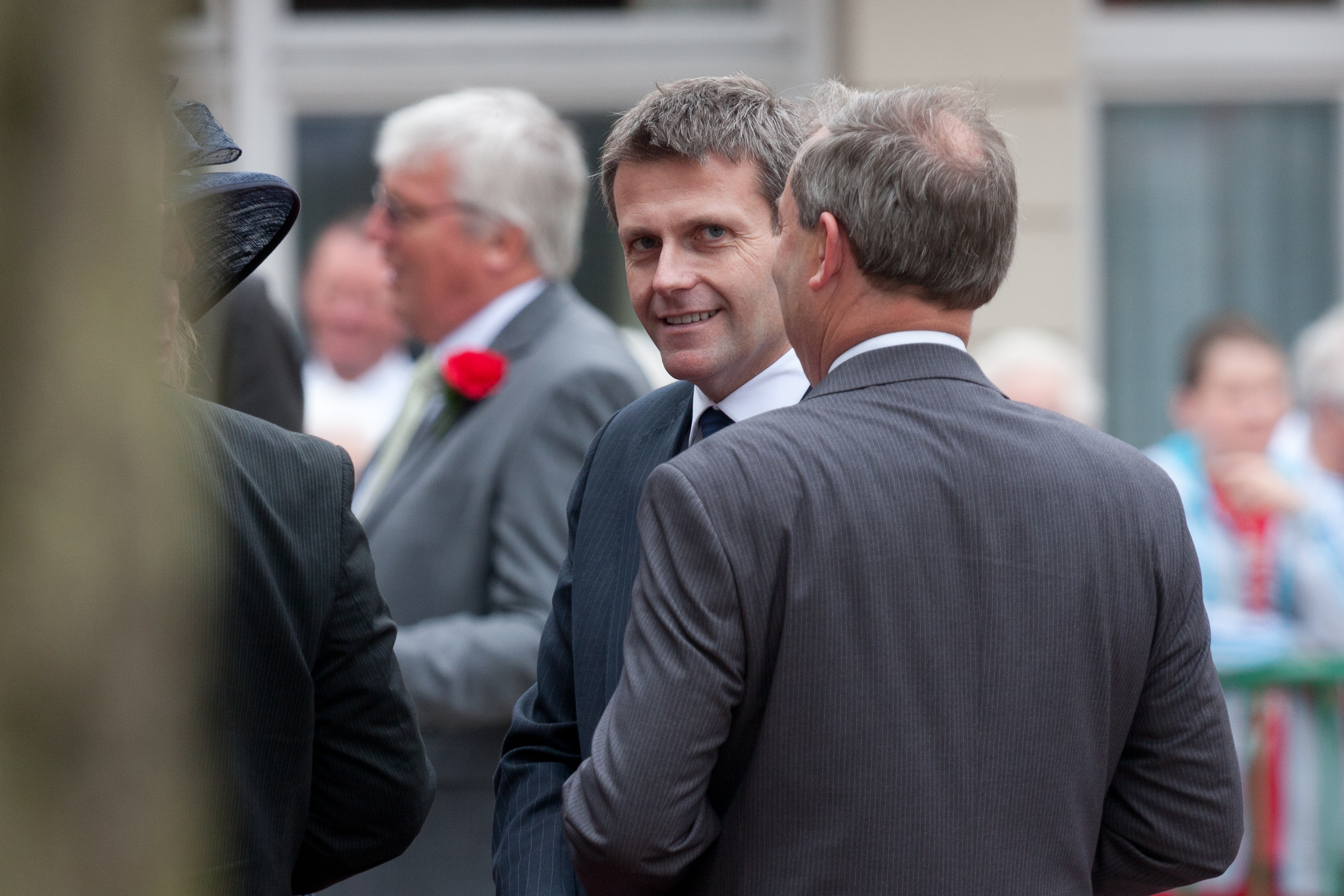 Senator Philip Ozouf at the Royal Visit 2012, Jersey.